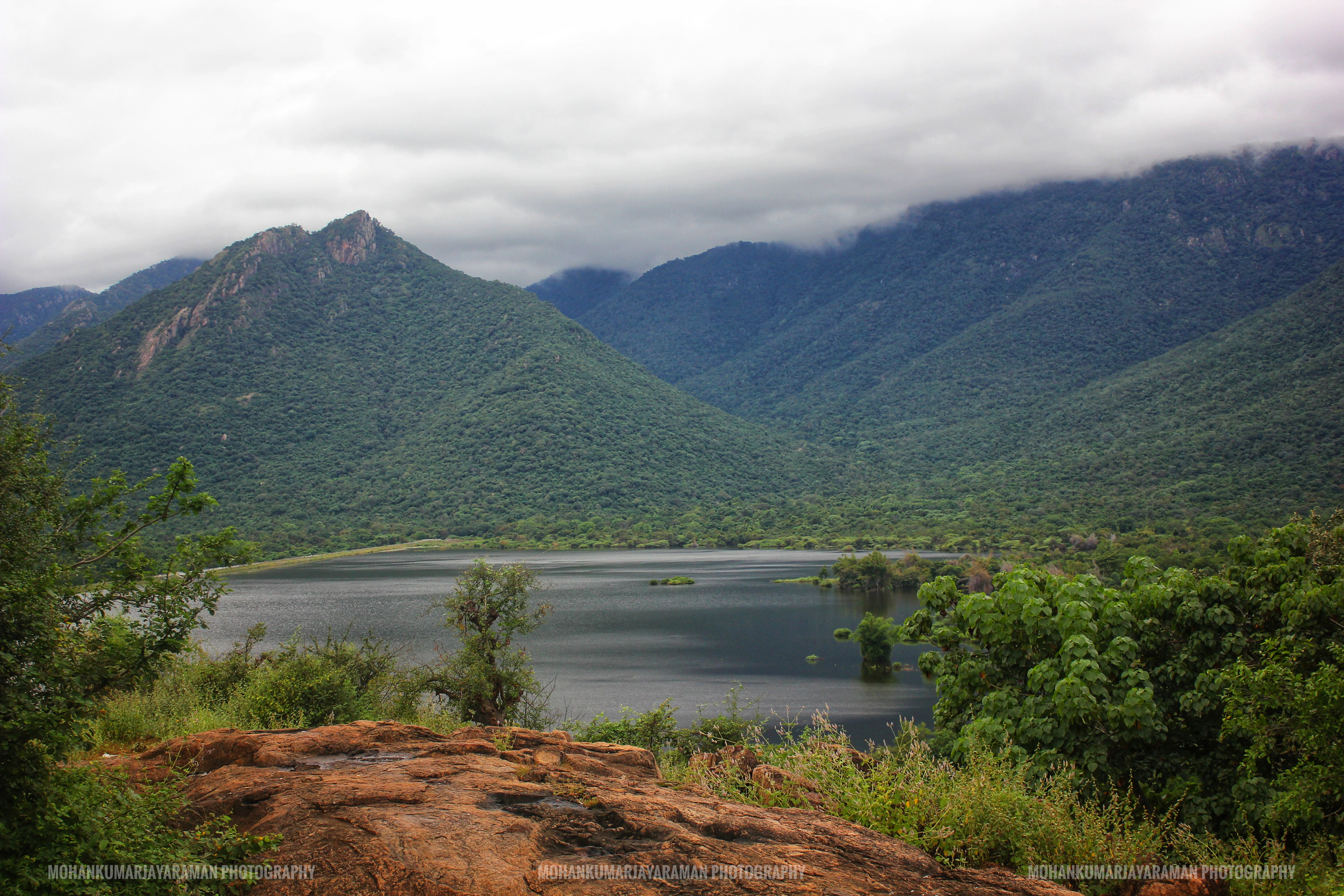 varattupallam dam